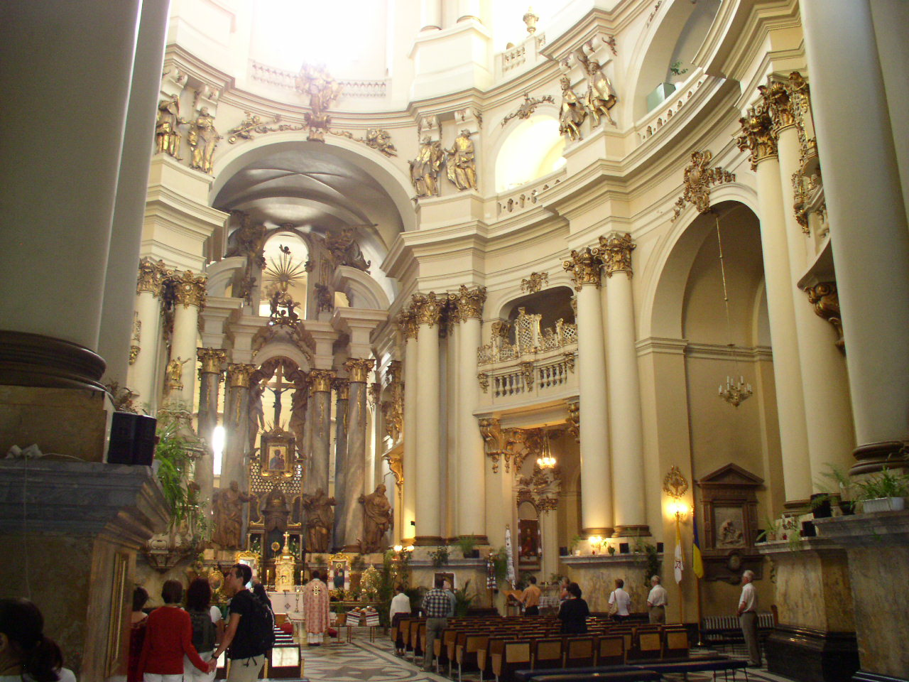 Dominican church. Lviv, Ukraine.